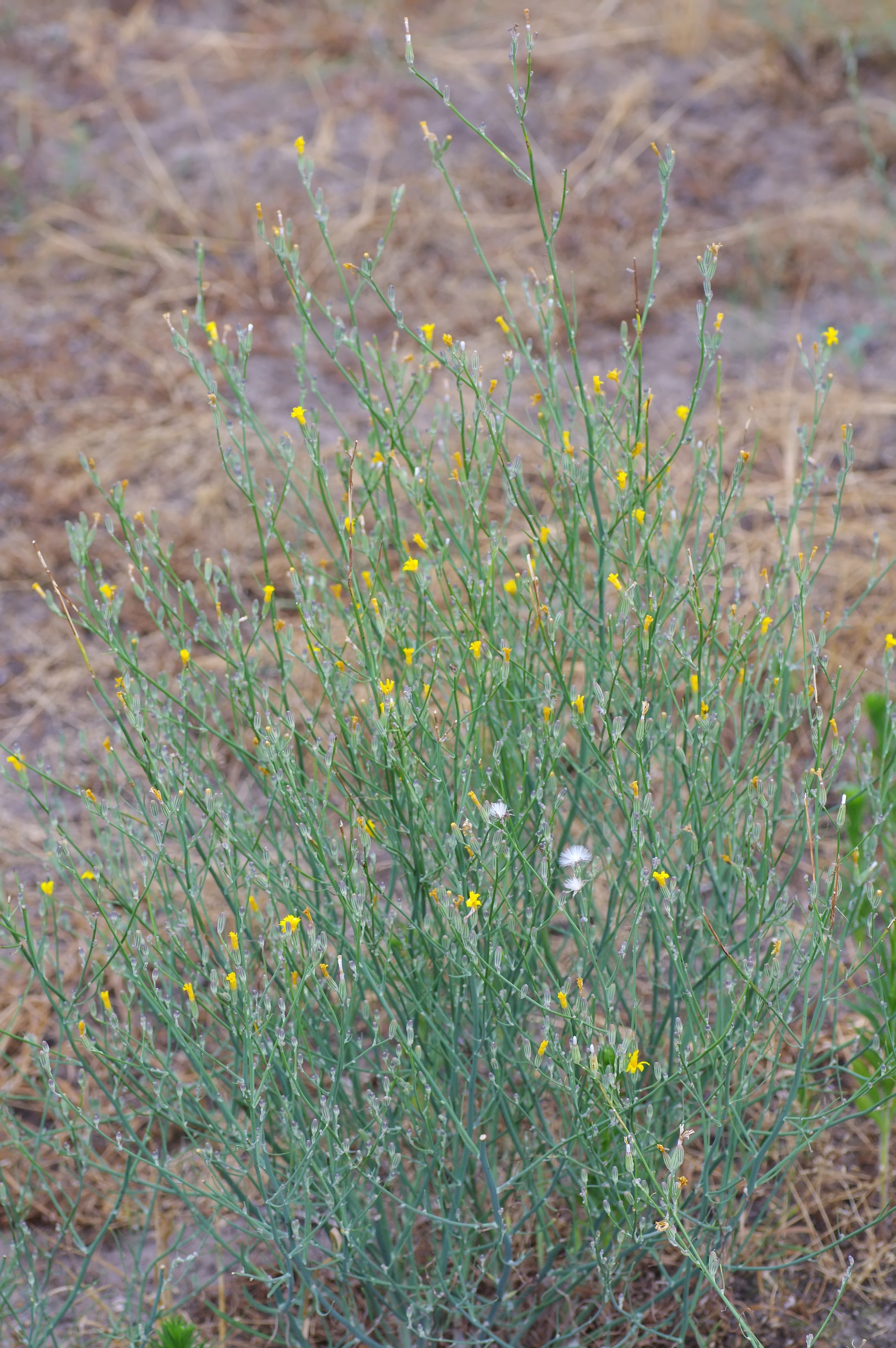 Habitus of the plant Chondrilla juncea (Asteraceae).